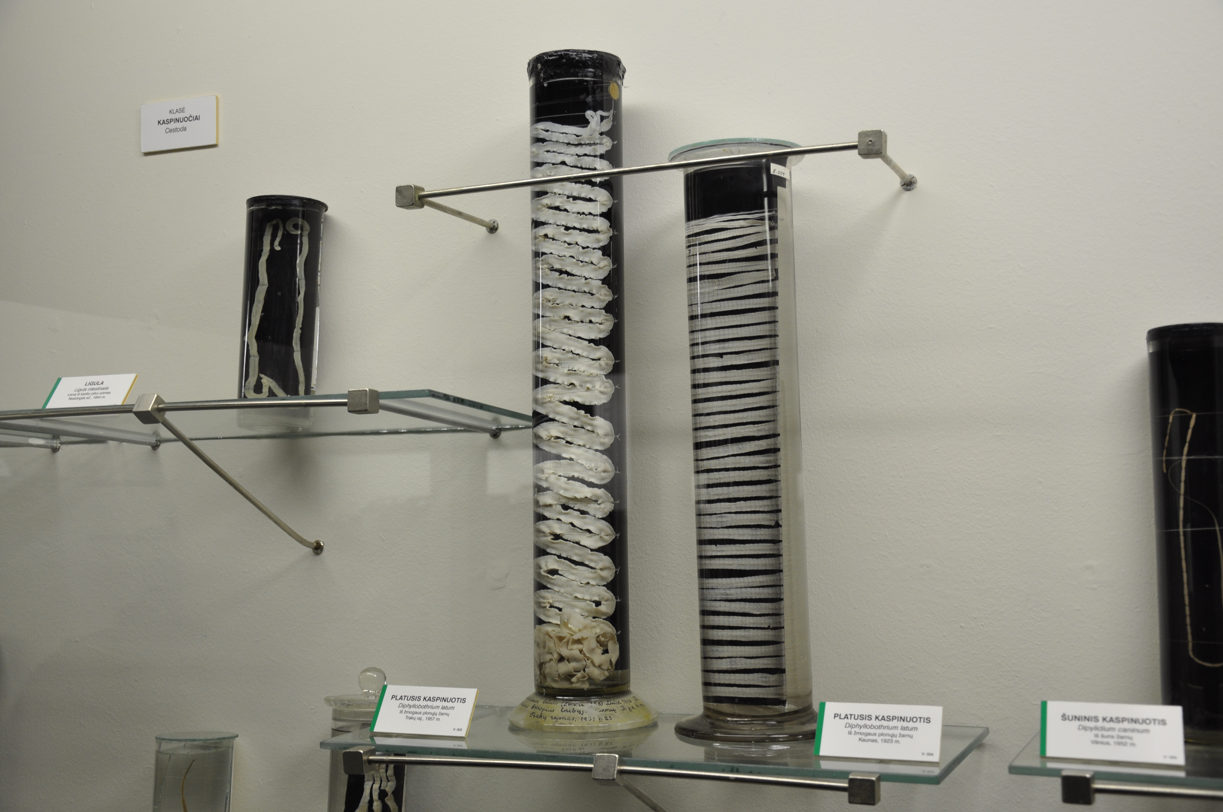 Diphyllobothrium latum at Kaunas Tadas Ivanauskas zoological museum.